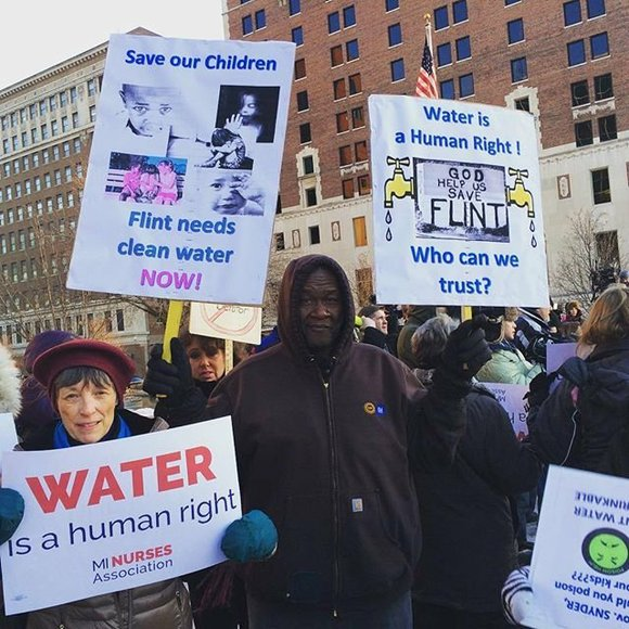 Flint residents protest outside of the Michigan State Capital in January 2016.